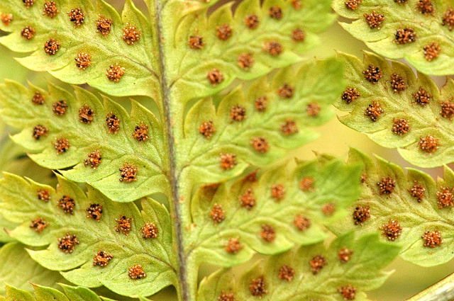 Picture taken in Commanster, Belgian High Ardennes . Species: Dryopteris carthusiana